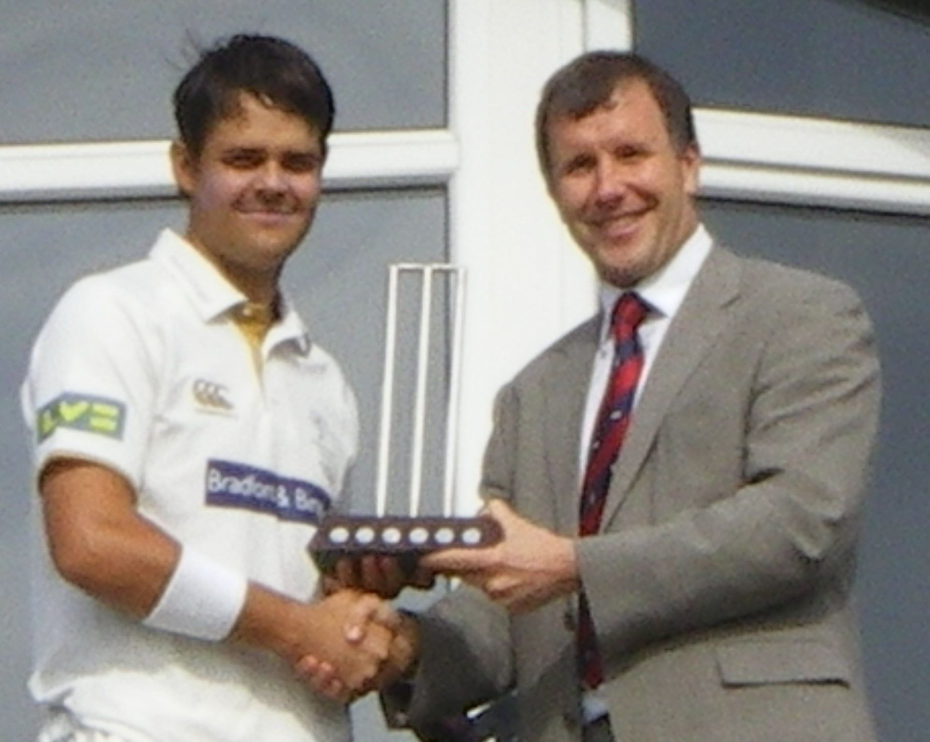 Jacques Rudolph receives 2008 Yorkshire CCC Player of the Year from Stewart Regan